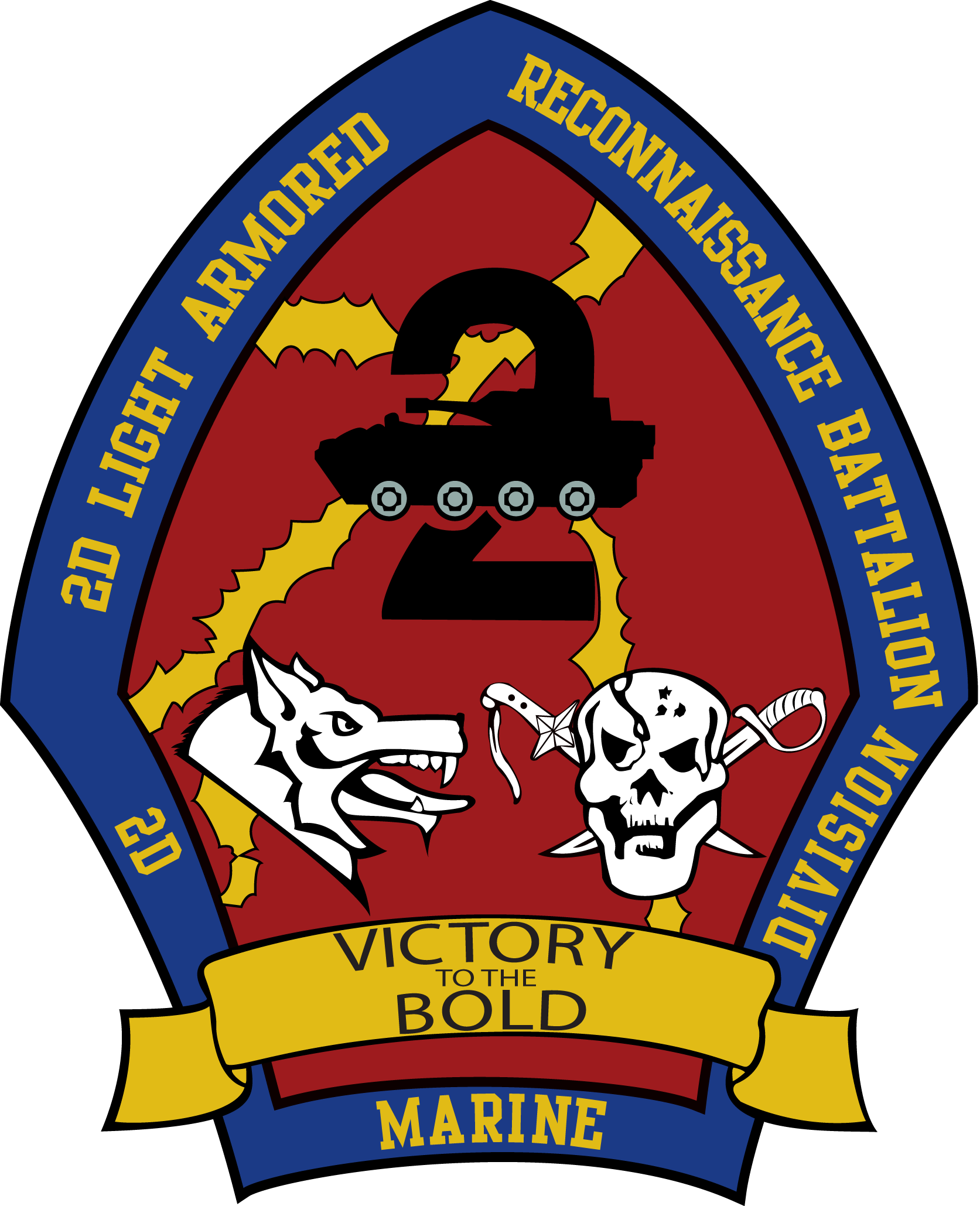 2D LAR Unit Crest ⵜⴰⵎⴰⵣⵉⵖⵜ ⵜⴰⵏⴰⵡⴰⵢⵜ: 2D LAR Unit Crest